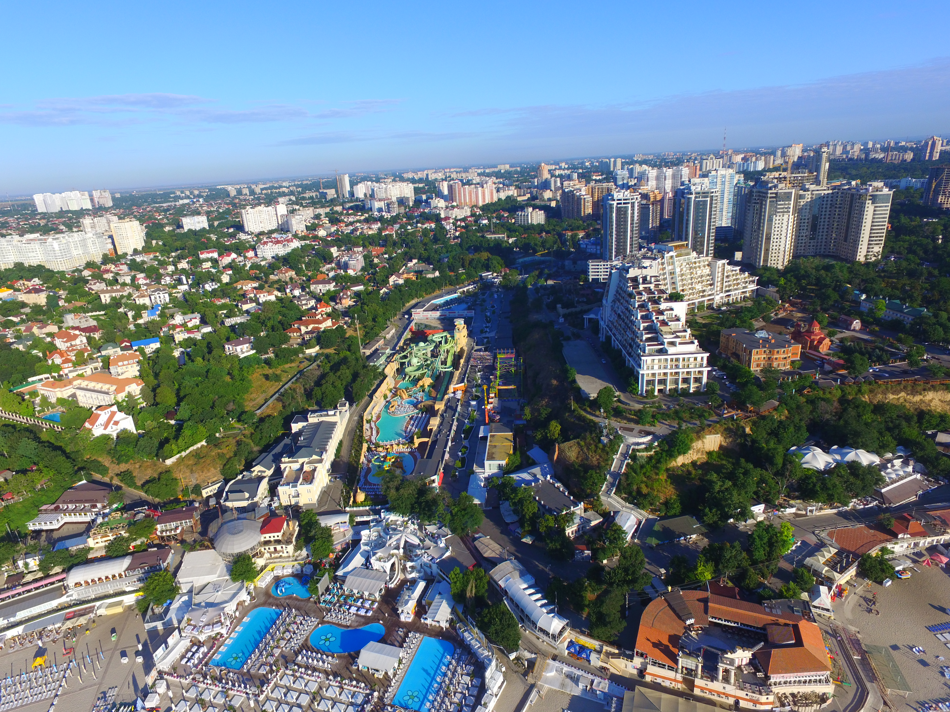 Arcadia, Odessa, aerial view